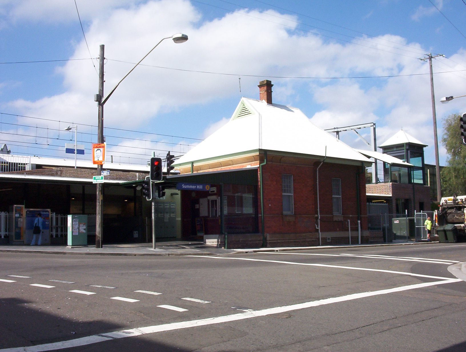 Photo I took of Summer Hill Railway station, NSW, Australia, in October 2004.